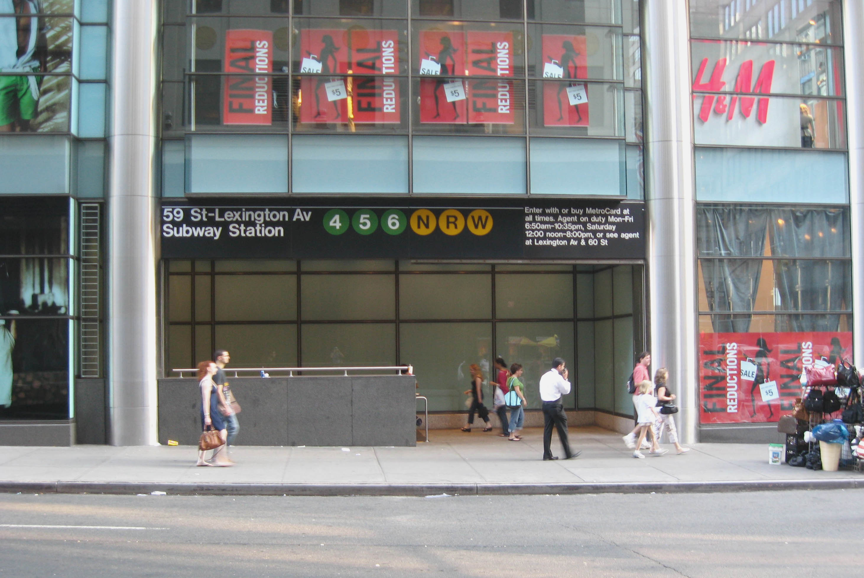 Looking south across 59th at Lexington Avenue/59th Street (New York City Subway) station on a cloudy afternoon